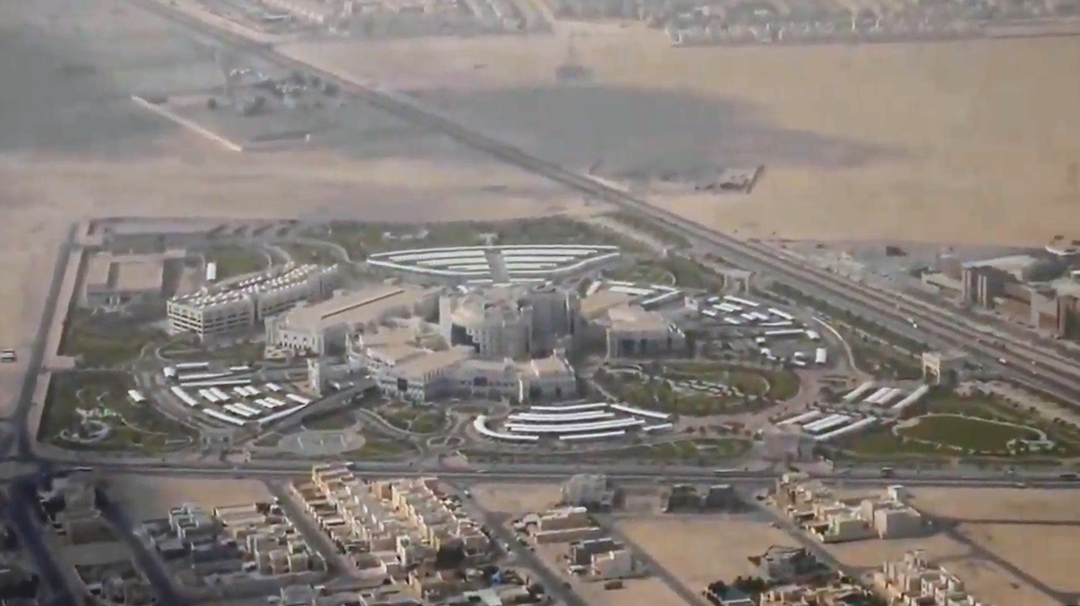 Aerial shot of Al Wakrah Hospital in Qatar in 2014. Al Wukair Road can be seen running to the right of it.